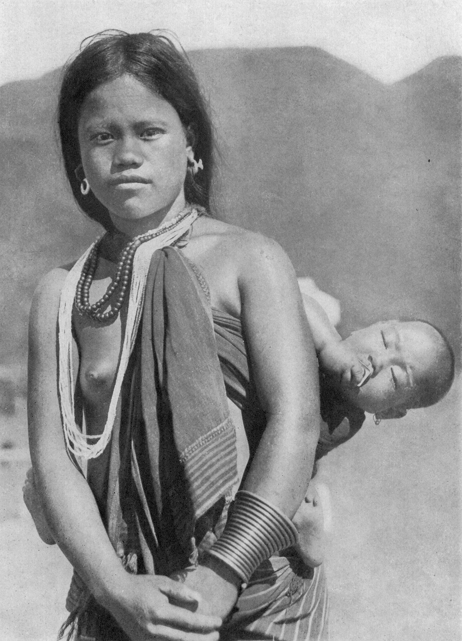 MOTHERHOOD IN THE PHILIPPINES. "He doesn't know that, after his mother, Uncle Sam is his best friend. Had he belonged to an earlier generation his childhood would have been spent at work in the fields until he was old enough to join father in head-hunting. Under American direction, the future probably holds for him an education and a respectable career as a farmer or as a member of the native police. At present he is just a healthy little Ifugao; mother's back is a warm and comfortable reality—and "Who is Uncle Sam, anyway?" - "